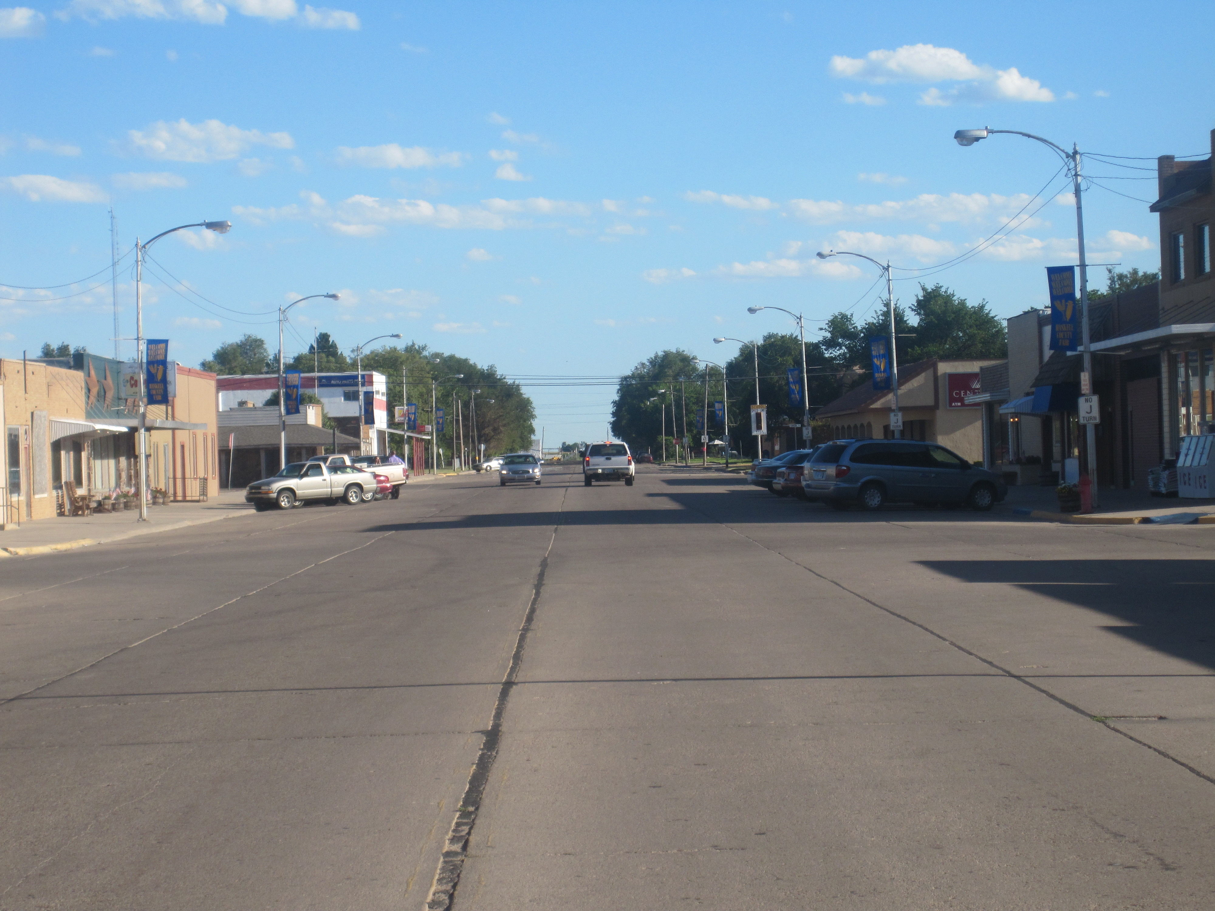 I took photo with Canon camera in Sublette, KS.